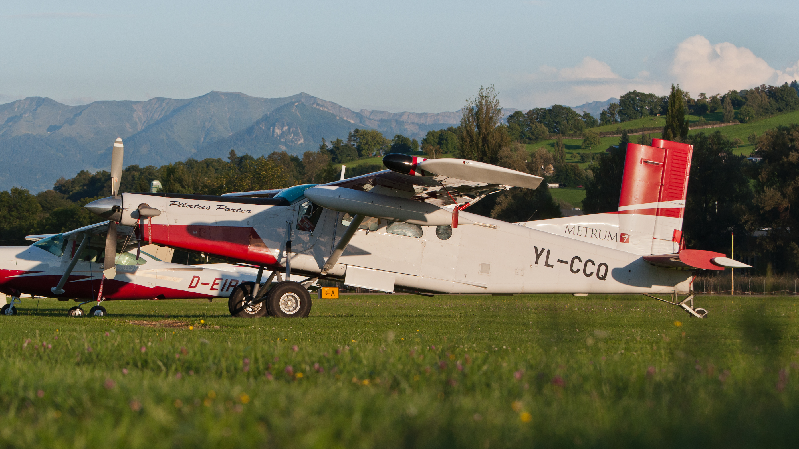 Metrum Pilatus PC-6/B2-H4 Turbo Porter (YL-CCQ, cn 950) at St. Gallen-Altenrhein Airport (LSZR)